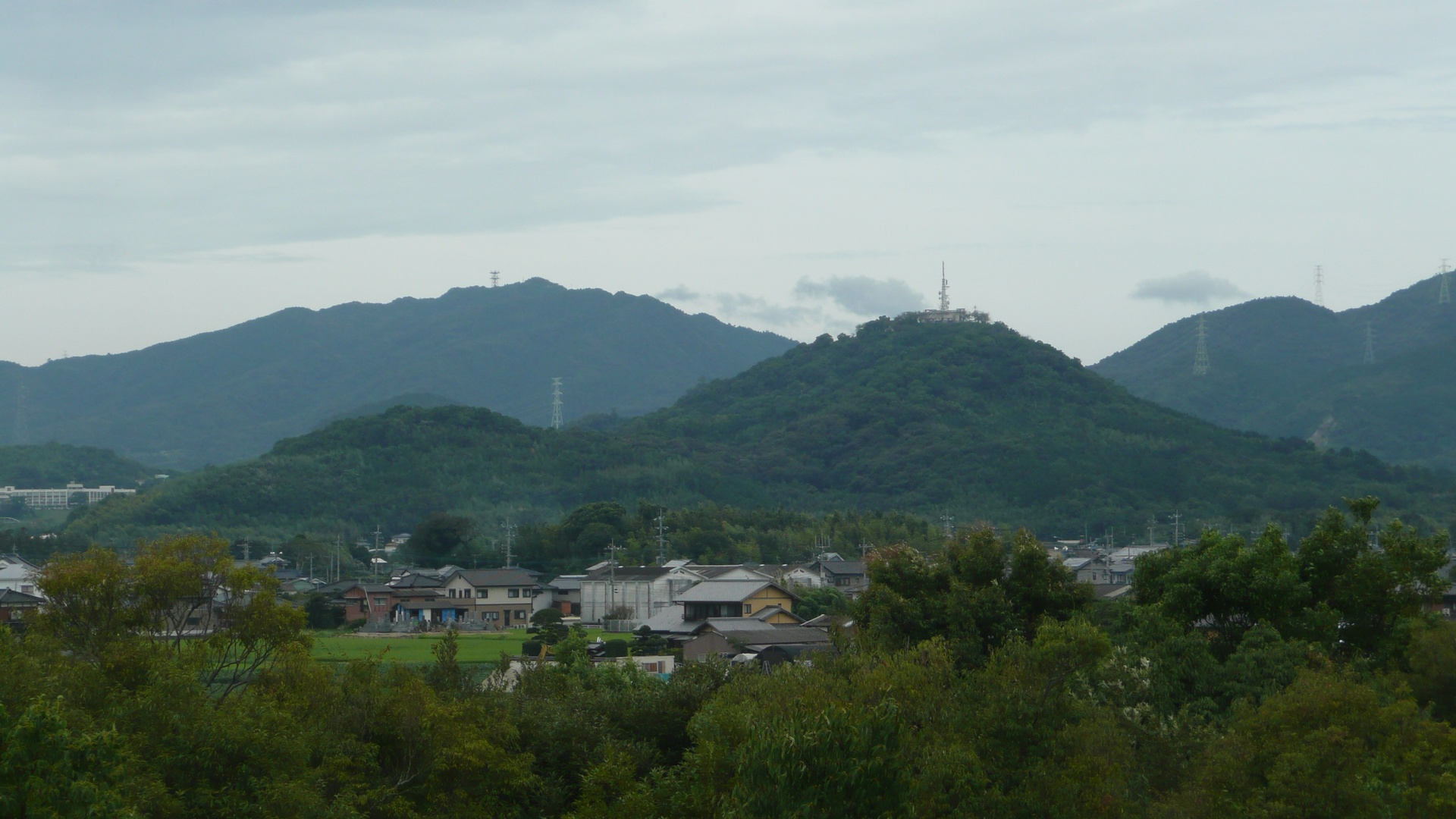 Mt. Hinokuma (Kanzaki City, Saga, Japan)